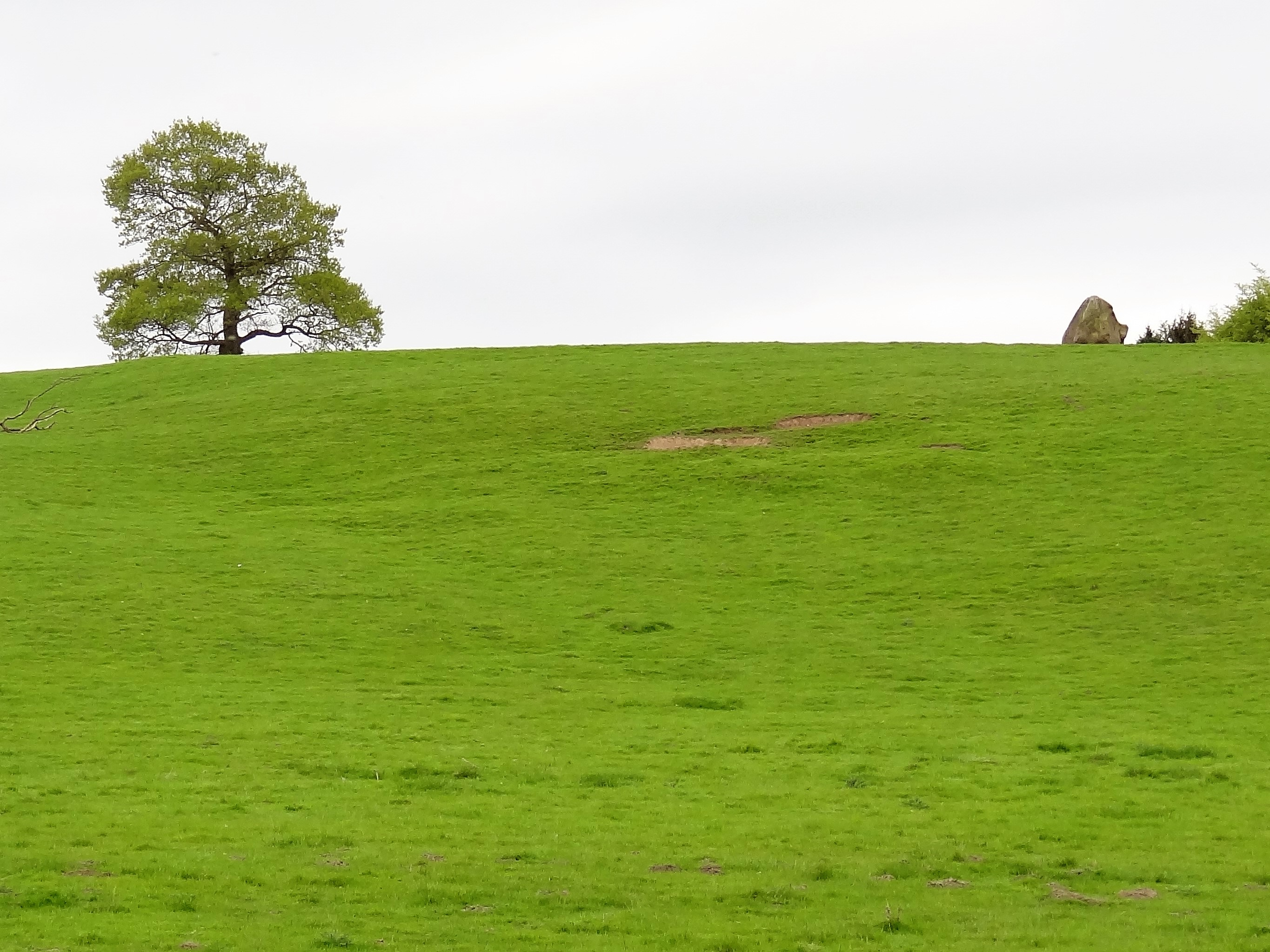 Carved rock known as the Grey Stone in Grey Stone Pasture, Harewood Park, 370m south east of New Bridge